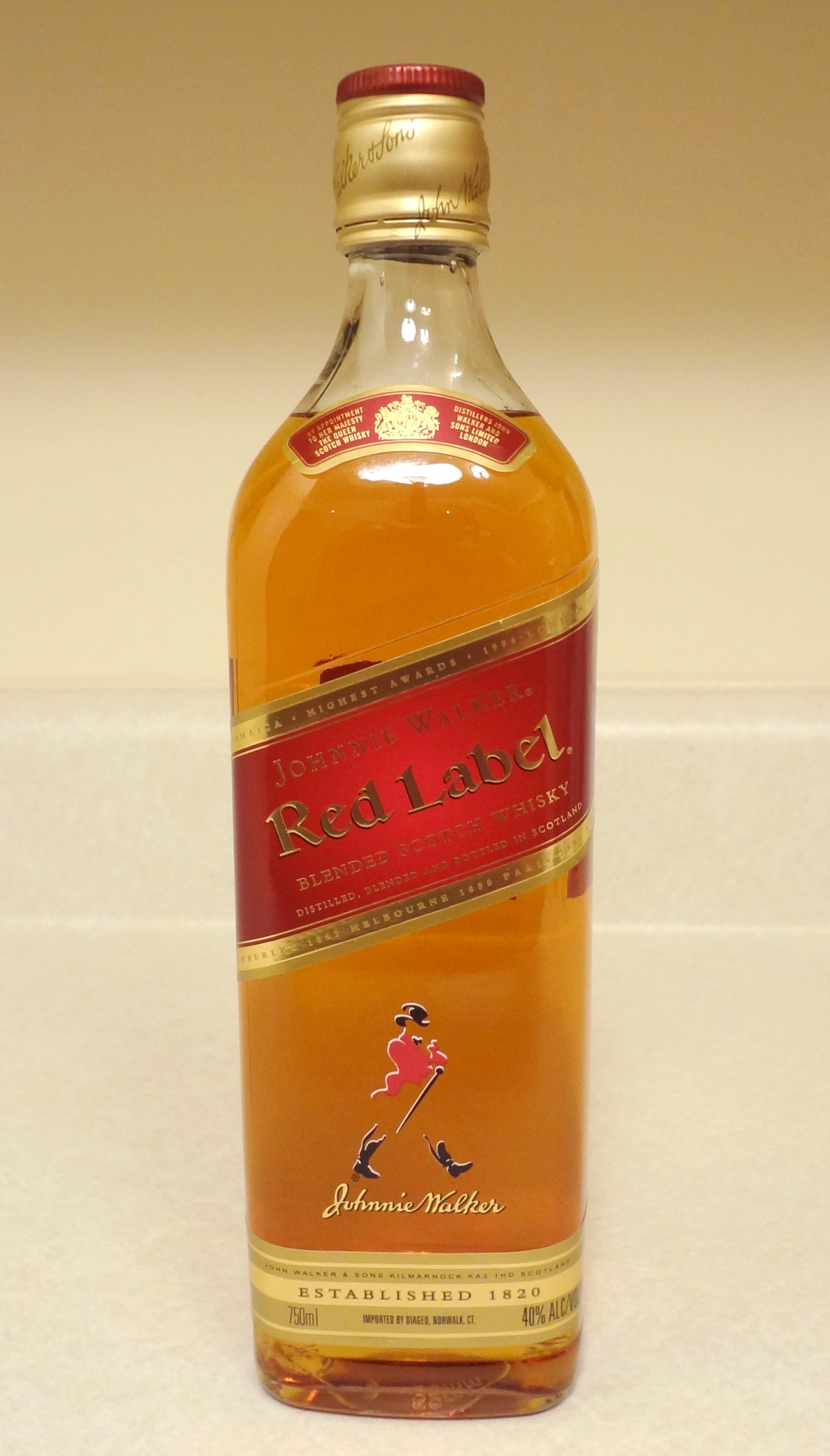 whiskey